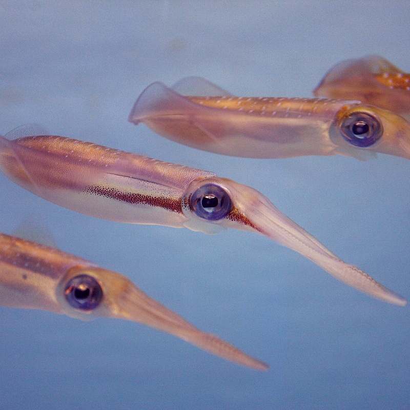 Sepioteuthis lessoniana